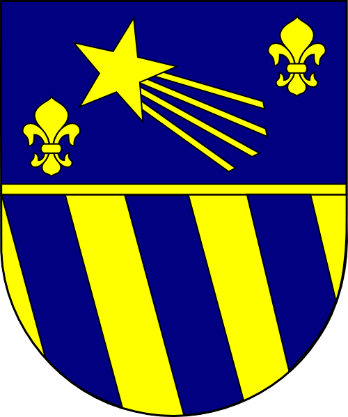 Coat of arms (shield only) of Domenico cardinal Tardini, Cardinal Secretary of State (1958 - 1961)